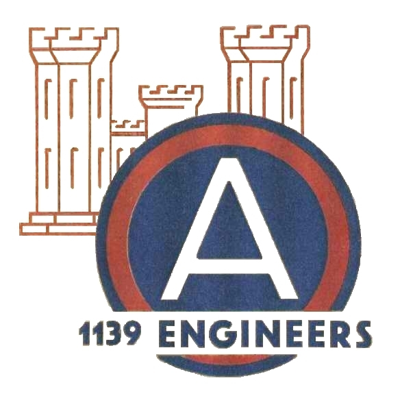 Insignia used by the 1139th Engineer Combat Group